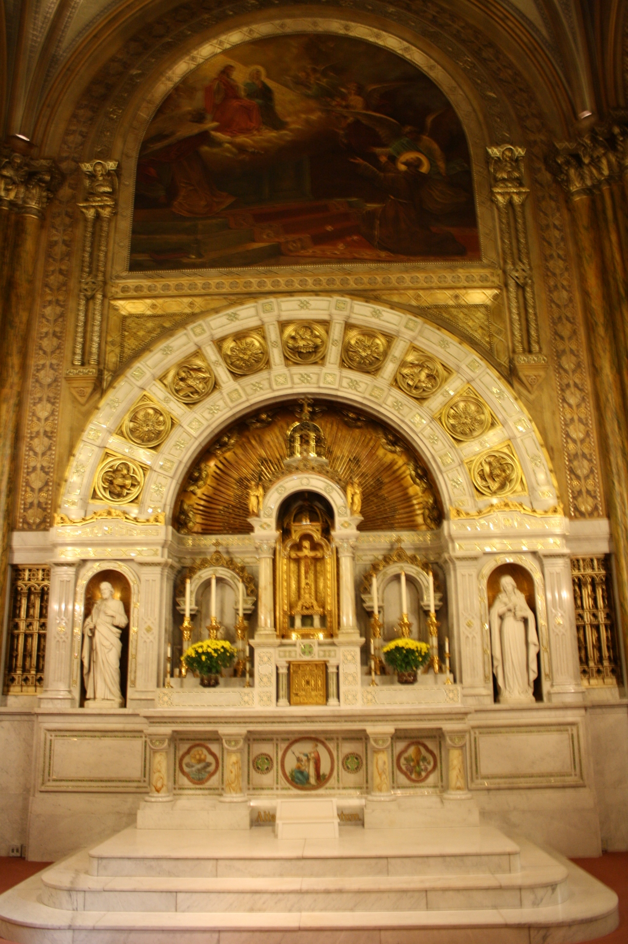 The altar interior of the Maria Angelorum Chapel inside the St. Rose of Viterbo Convent. It is listed on the National Register of Historic Places. The building was built between 1900 and 1905, so all artwork is in the public domain in the United States. Tadeusz Żukotyński, the painter of the top painting, died in 1912, which is well beyond the 75 year after death period for paintings to be released into public domain around the world.